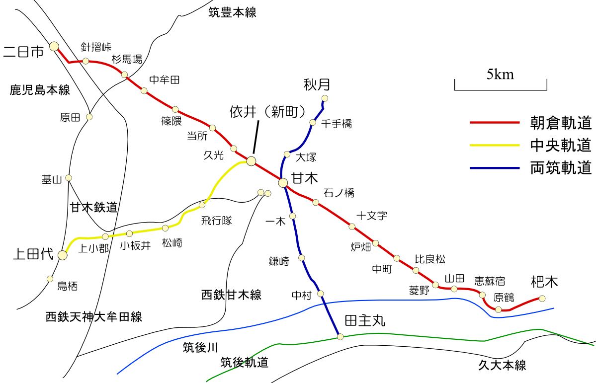 Route map of Asakura Tramway（朝倉軌道）.